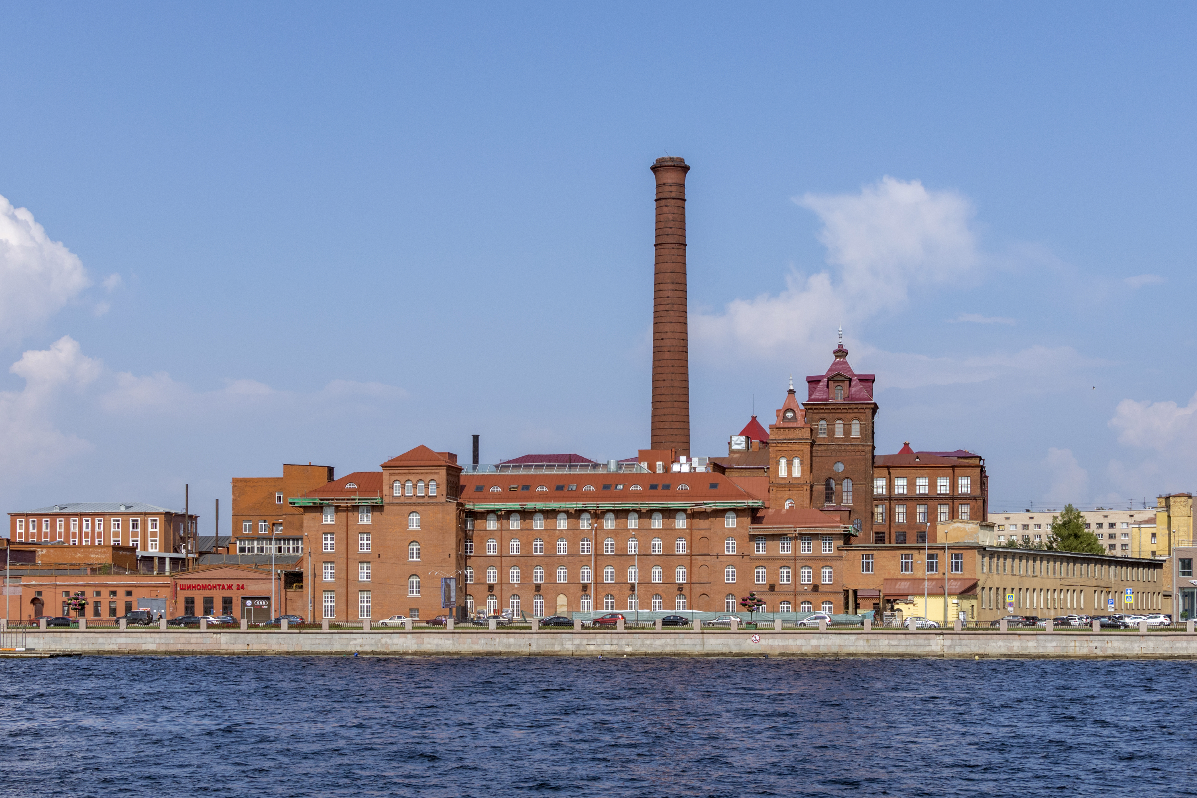 Nevka Cotton Manufactory at Vyborgskaya Embankment in Saint Petersburg